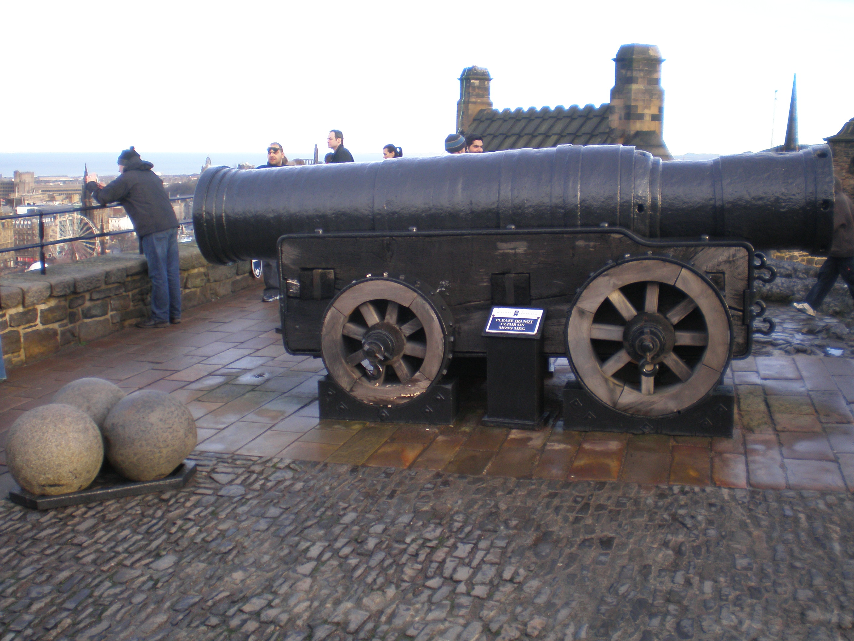 Side view of Mons Meg, Edinburgh Castle